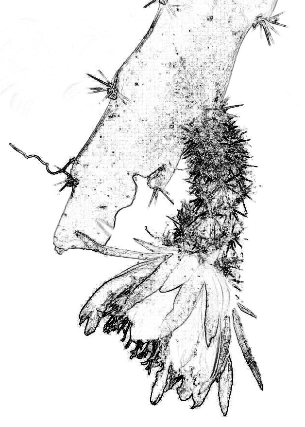 Flowering stem of Weberocereus alliodorus